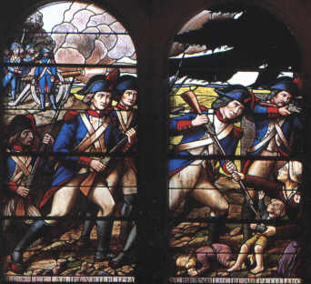 Left part of the stained-glass window of the Saint-Pierre church of Les-Lucs-de-Boulogne representing the massacre of the population of the village of Petit-Luc by the republican troups on february 28, 1974 during the war in Vendée.